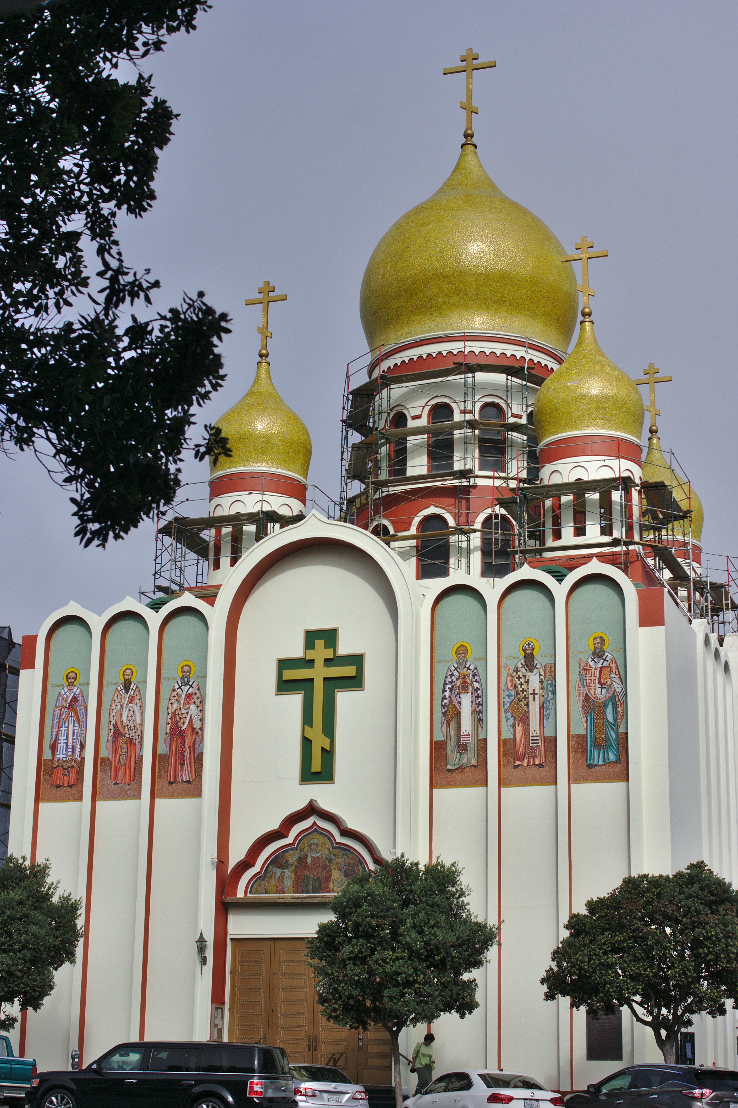 Holy Virgin Cathedral in San Francisco, California, USA